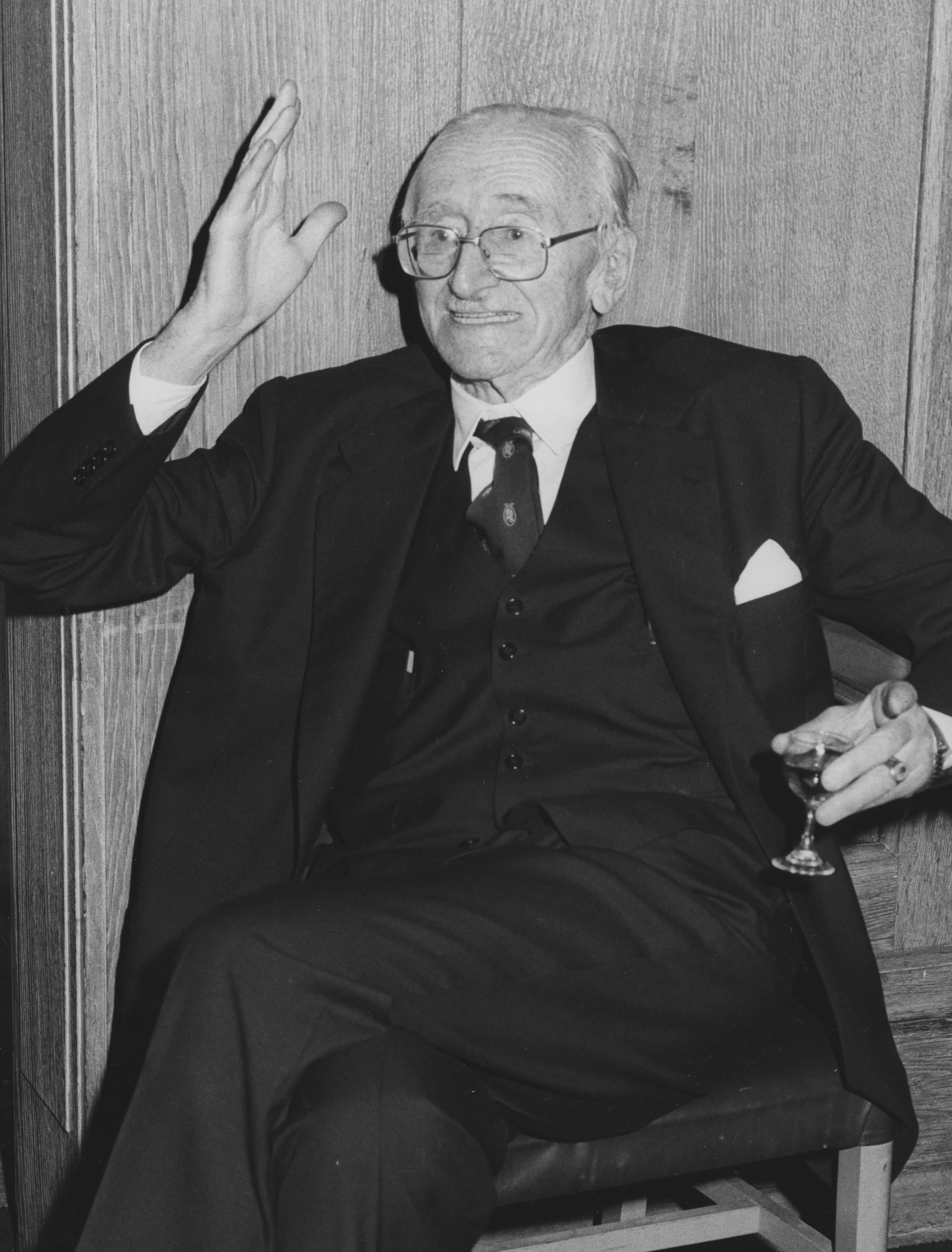 Professor of Economic Science at LSE, 27th January 1981, the 50th Anniversary of his first lecture at LSE